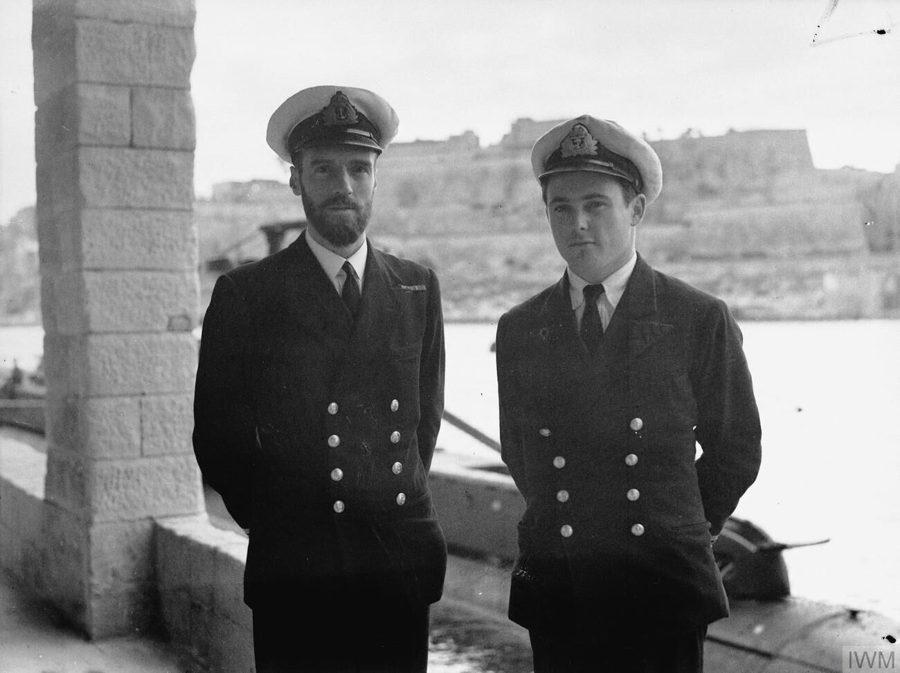 Lt Commander Malcolm David Wanklyn VC, DSO with his First Lieutenant, Lt J R D Drummond, both of HMS Upholder.